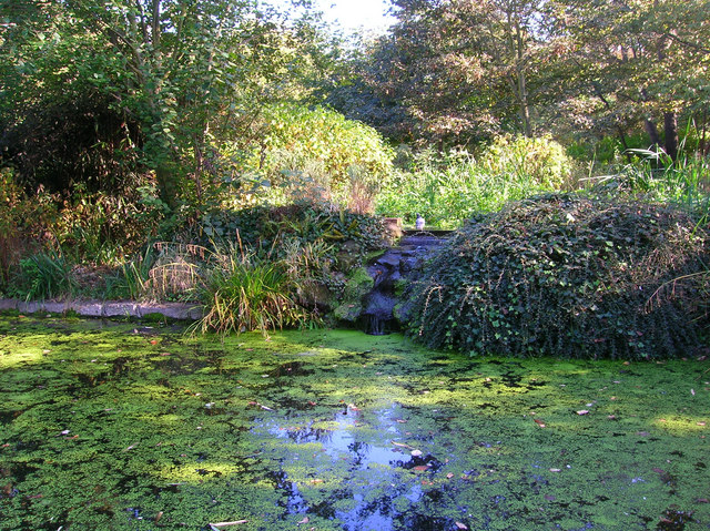 Fish Pond, St Ann's Well Gardens Well stocked with fish which can be fed with fish pellets available from the park keeper. The pond is fed by the trickling remains of the chalybeate spring that once occupied the park.